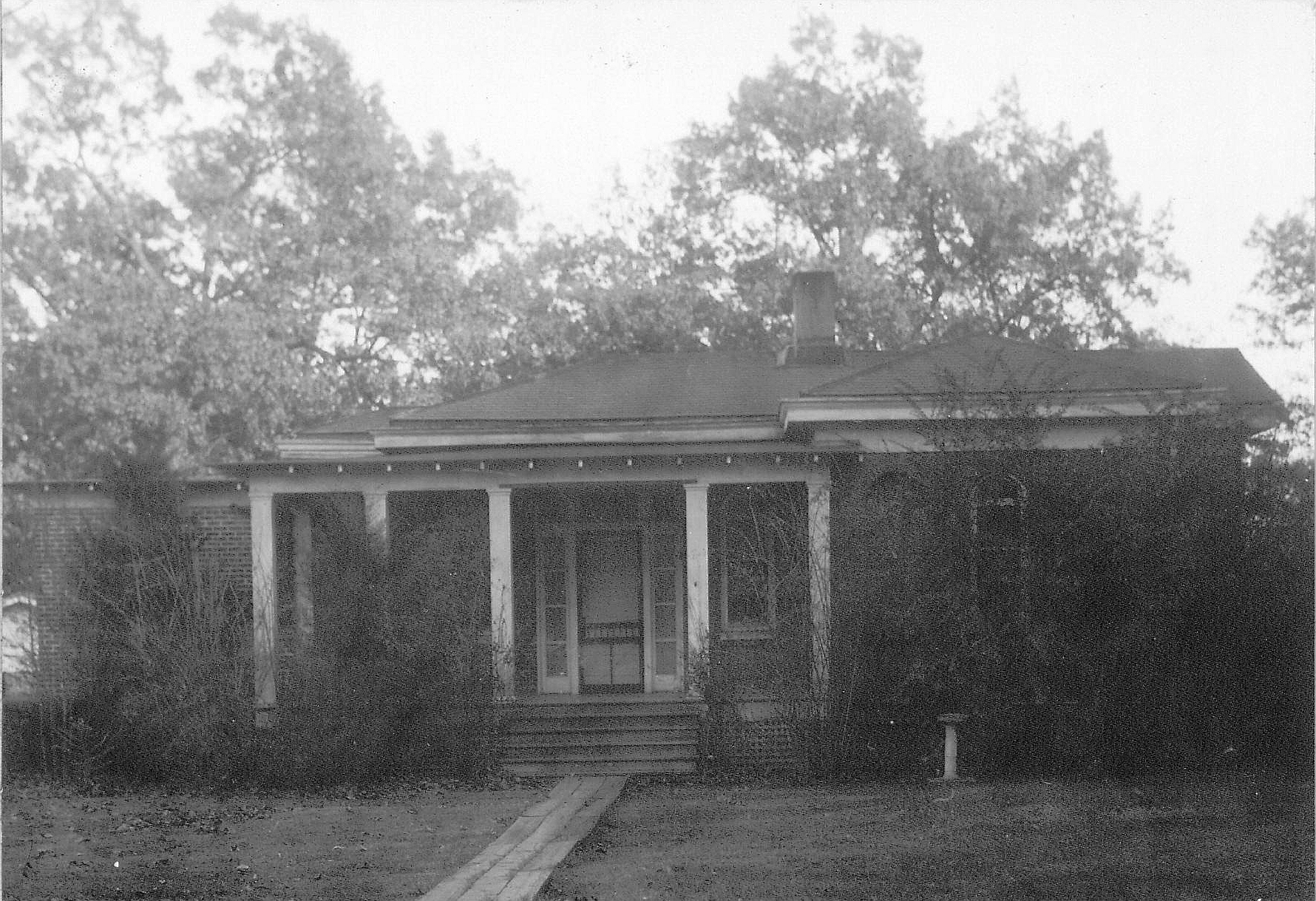 The Dead House, University of Mississippi.